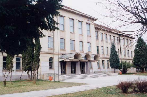 Gimnasioum in Berane